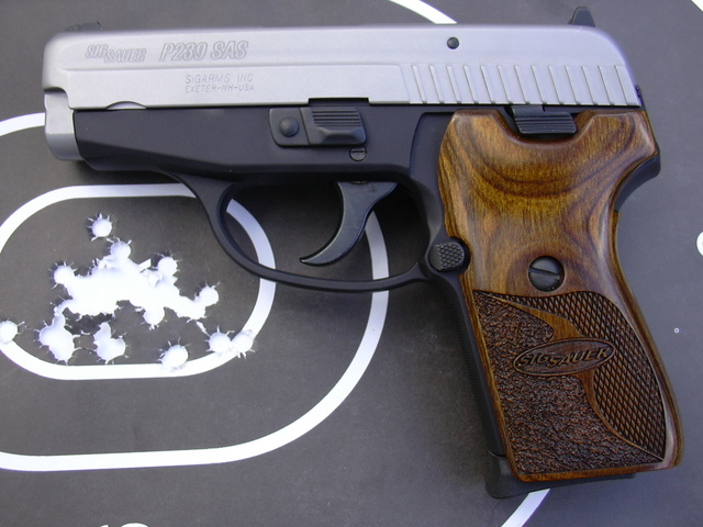 SIG P239; Dan O'Brien, personal collection.